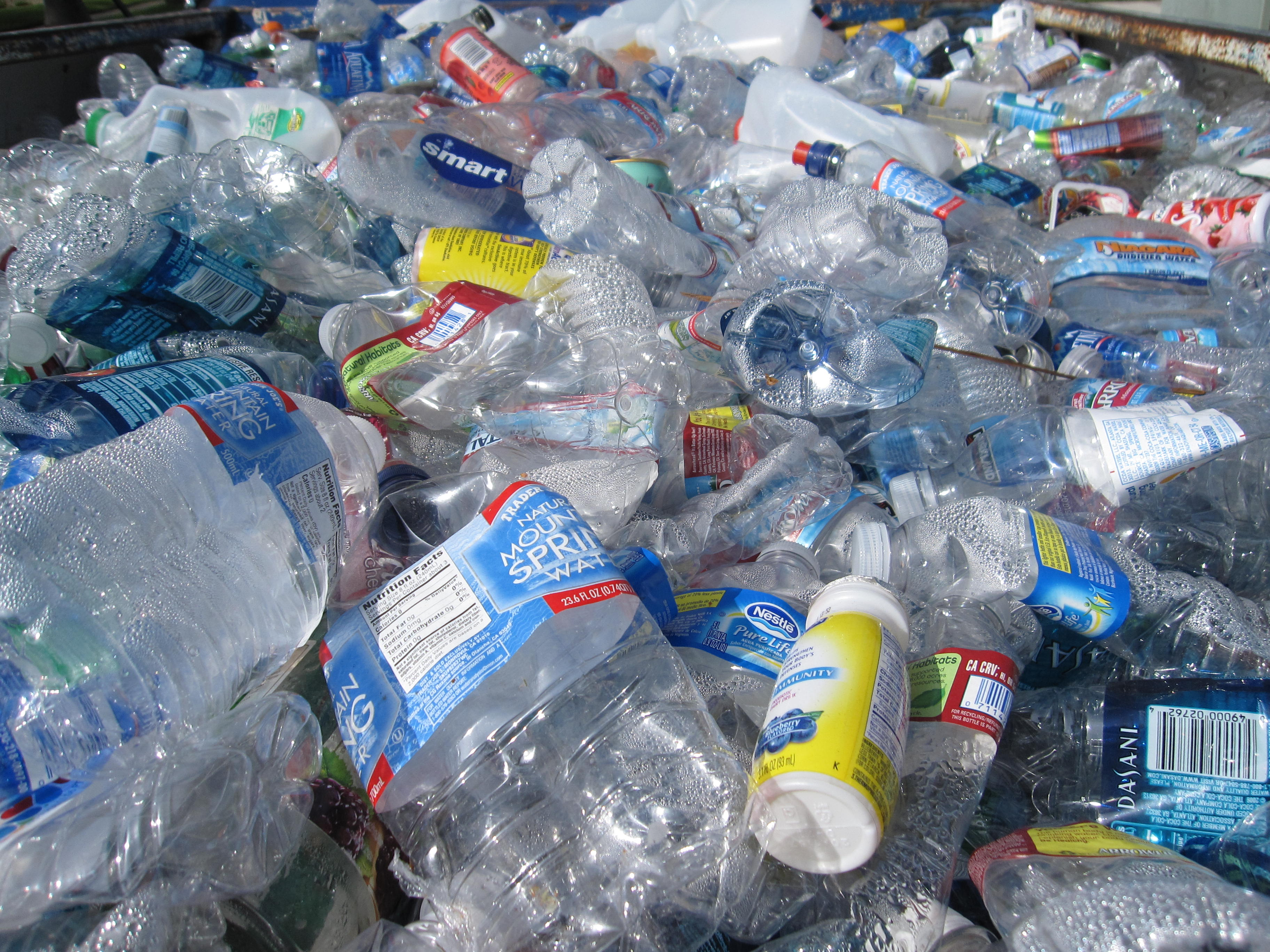 Plastic bottles in the back of a pickup truck, ready for recycling